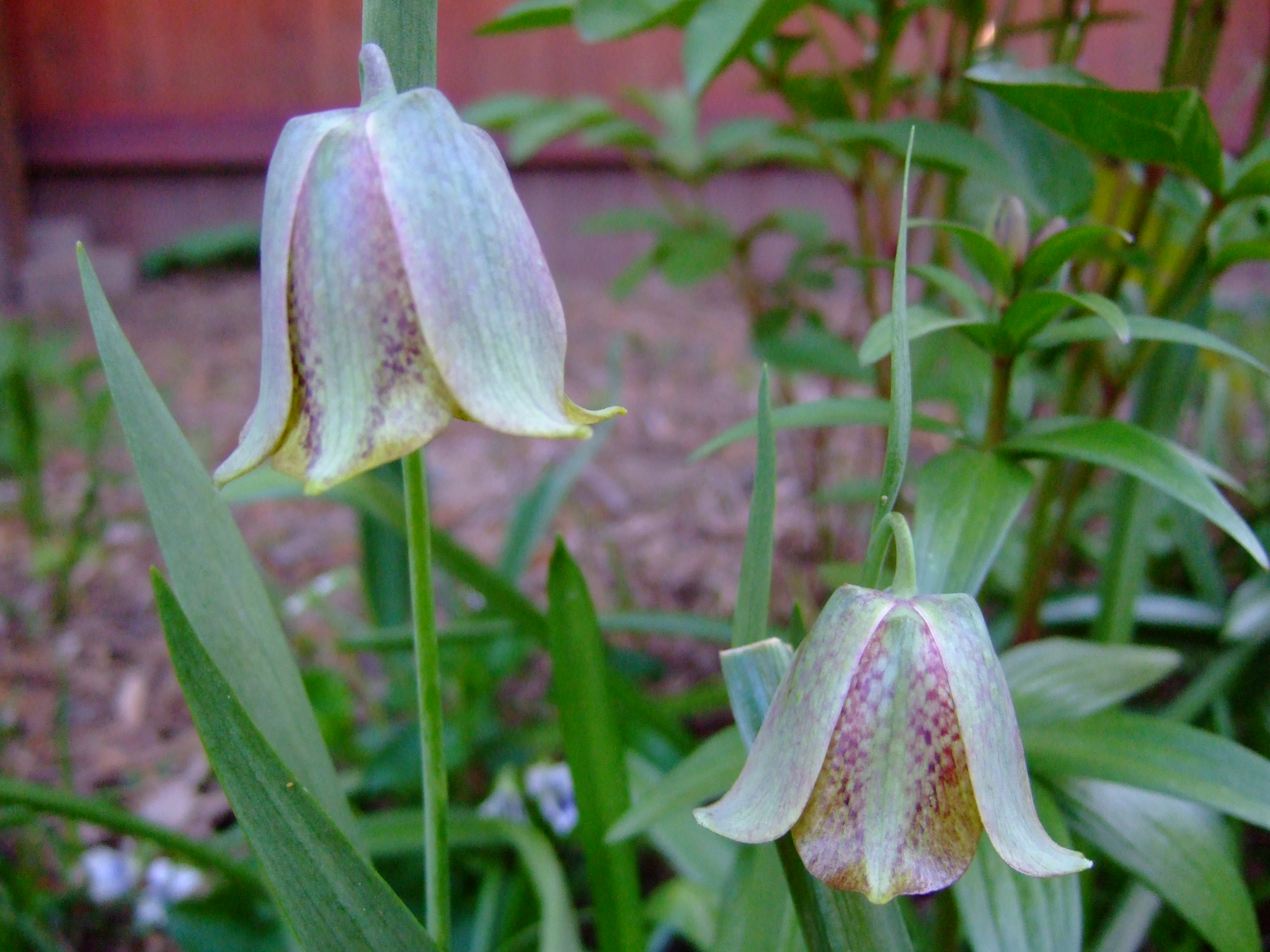 Fritillaria kotschyana